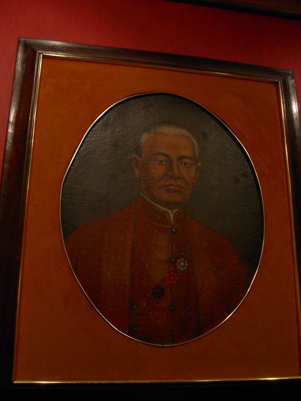 Photo by User: Adam Carr